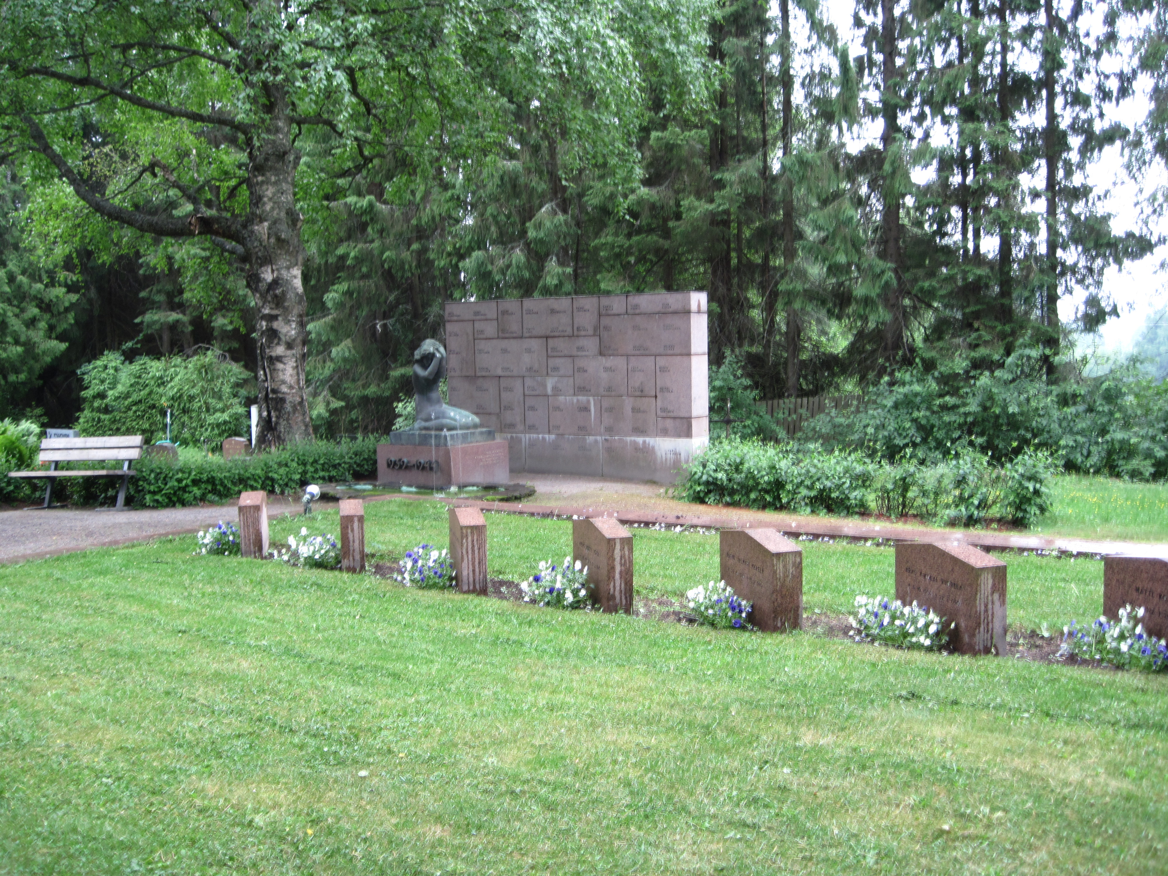 Military cemetary at church in Karinainen, Finland